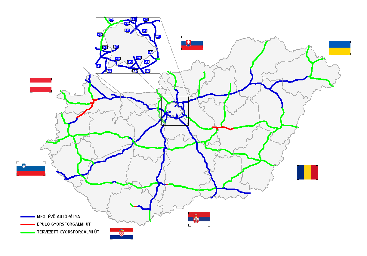 Motorways in Hungary 11. 07. 2015